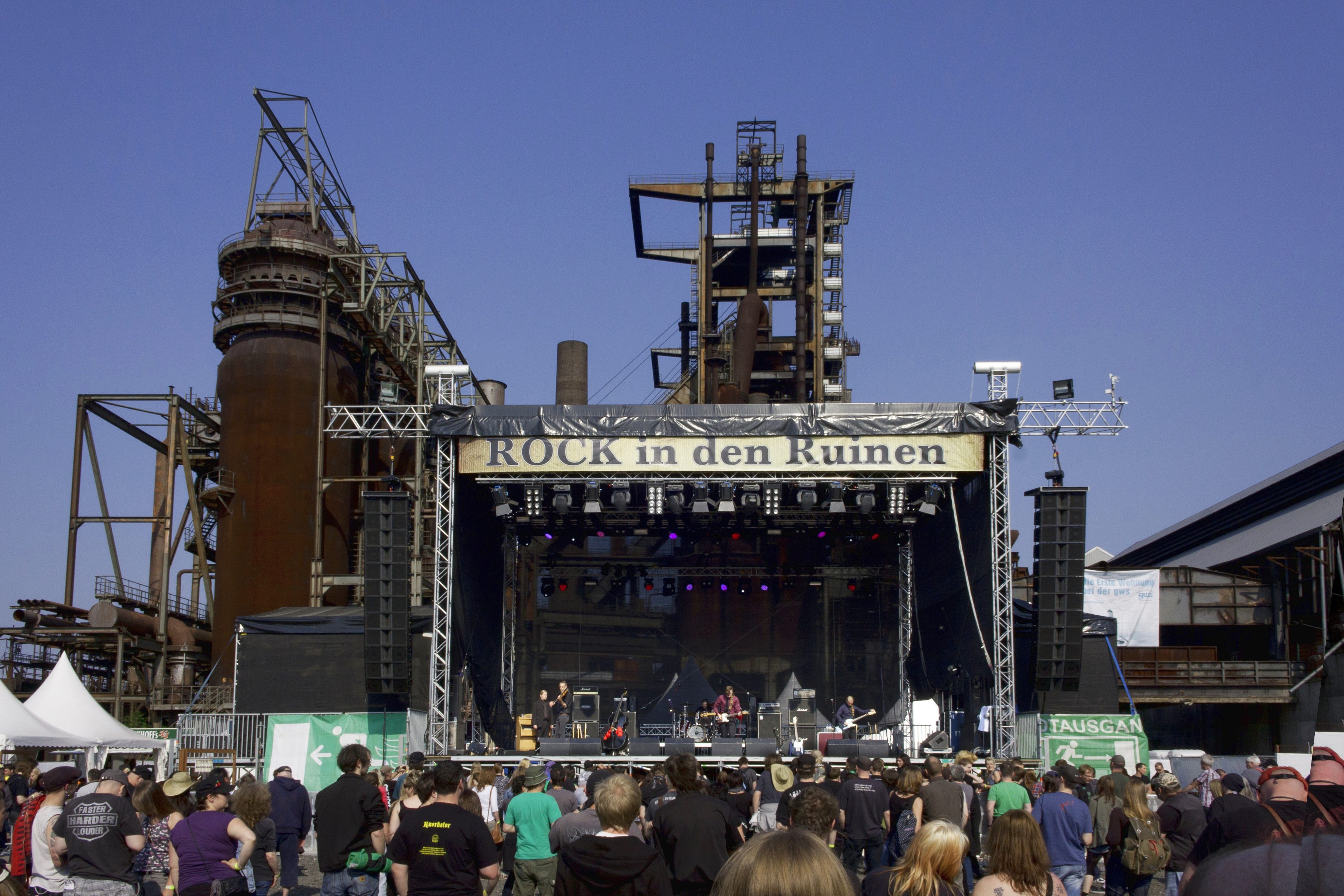 The festival-stage on the new location in front of the impressive scenery, the old blast furnace of the steel mill named 'phoenix' in dortmund